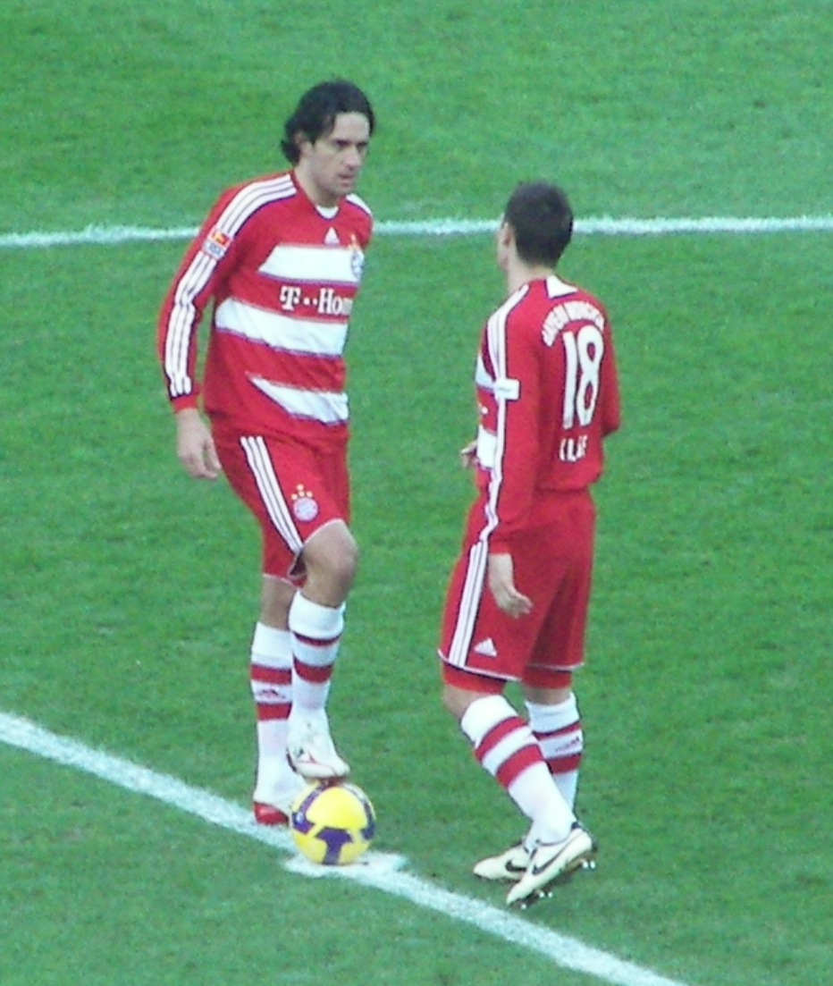 Luca Toni and Miroslav Klose (18), Olympiastadion, Hertha BSC Berlin vs Bayern München, 2009.